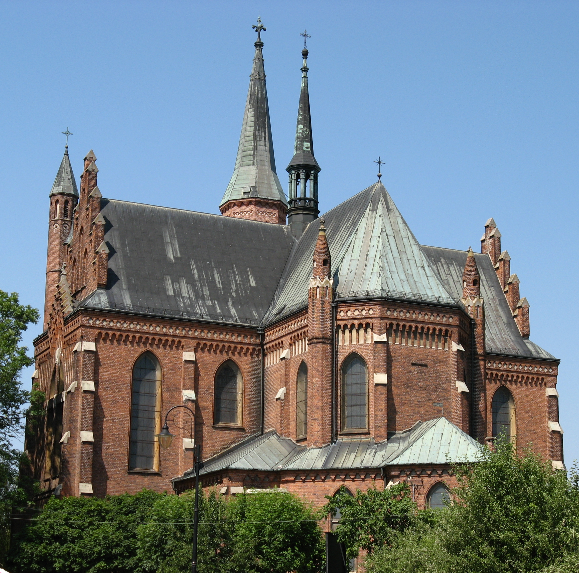 Jesus' Holiest Heart church (east part)- Turek